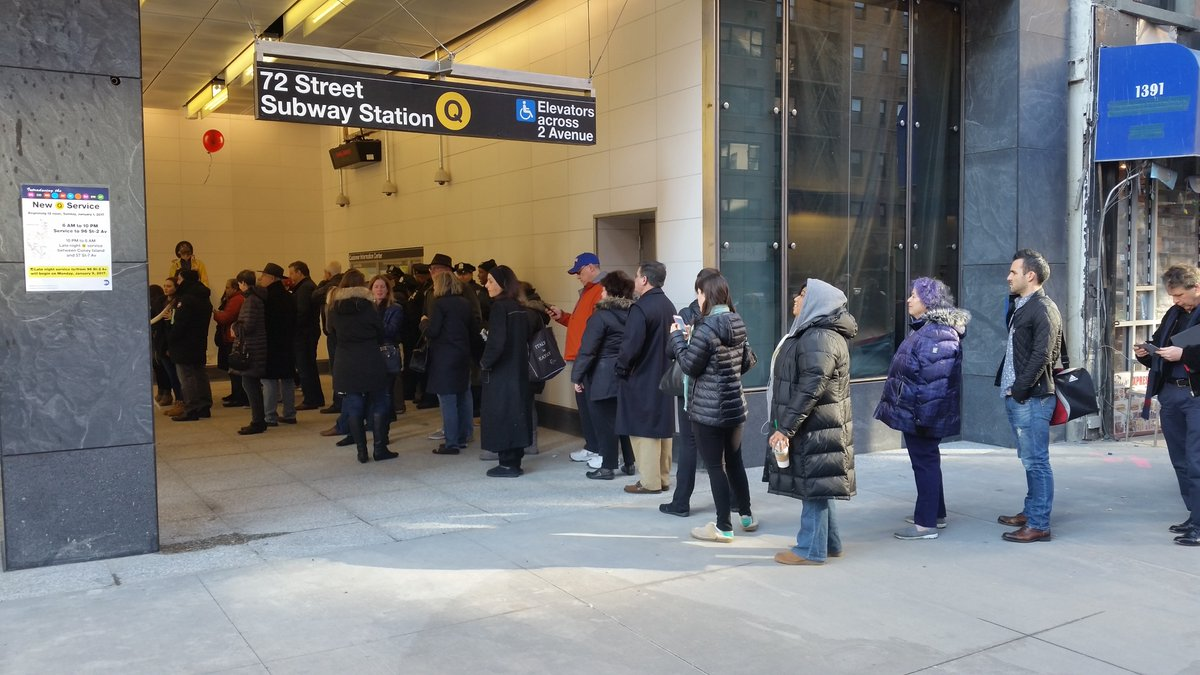 People lined up to enter the new Second Avenue Subway station!